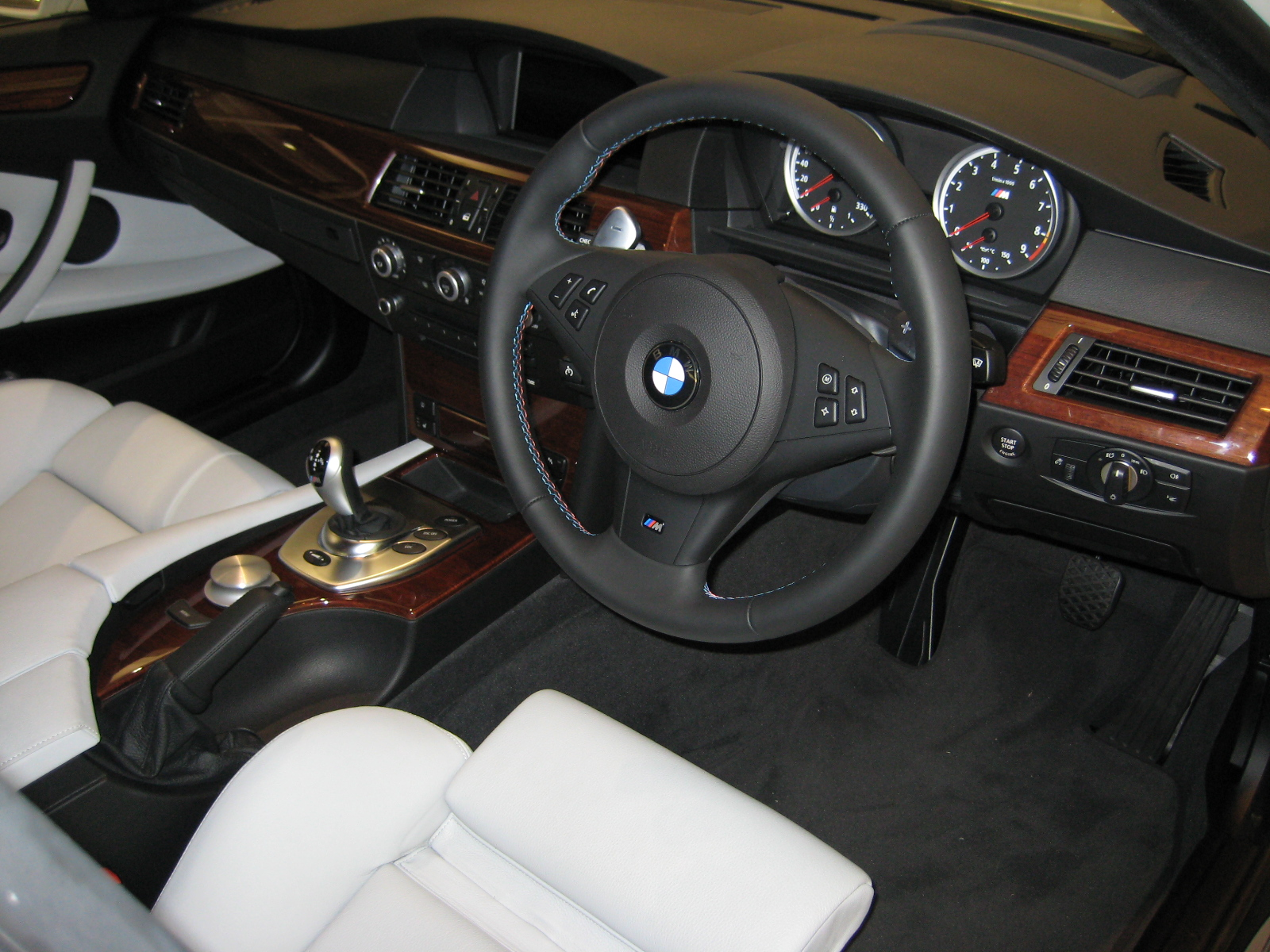 BMW E60 M5 Interior in BMW M Paddock